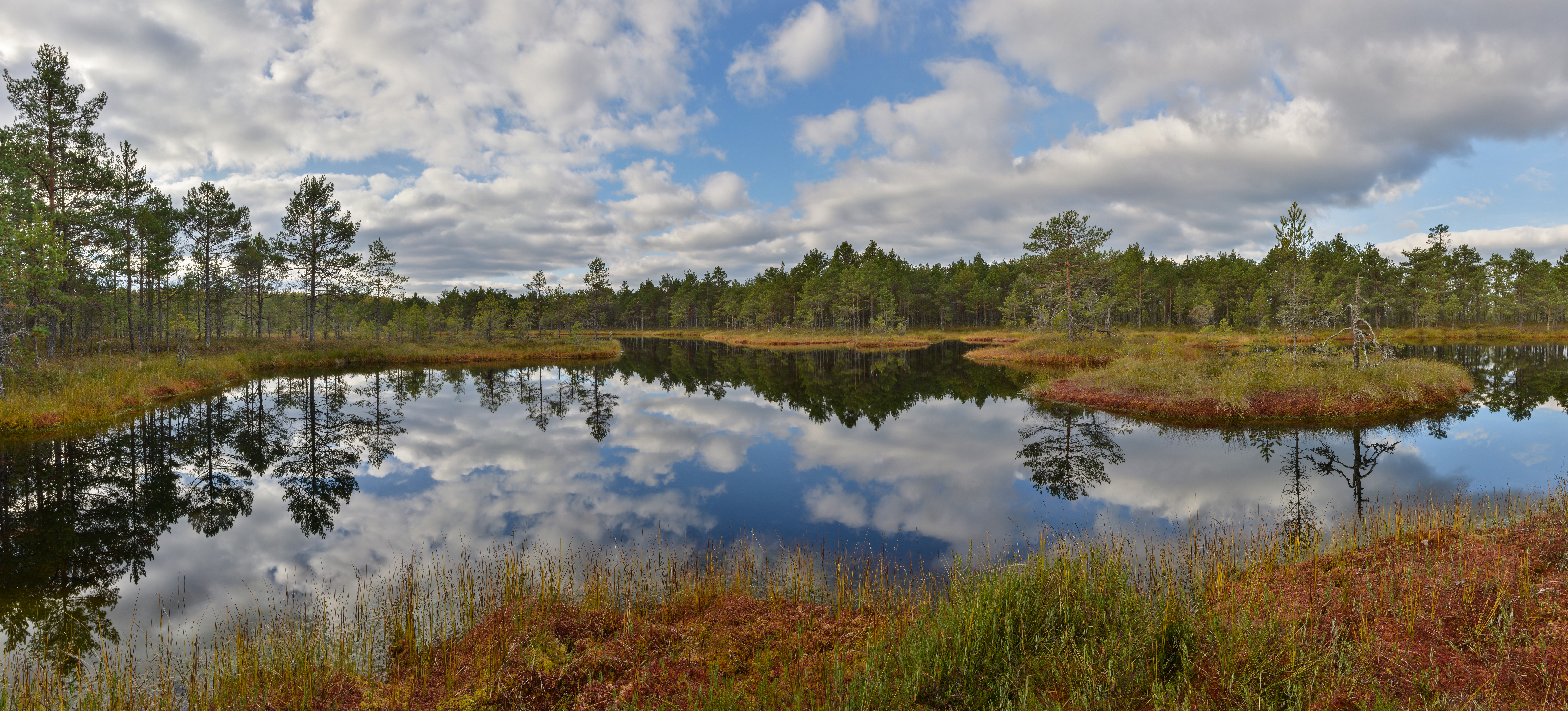 Bog lake in Suru Bog, Põhja-Kõrvemaa Nature Reserve, Estonia